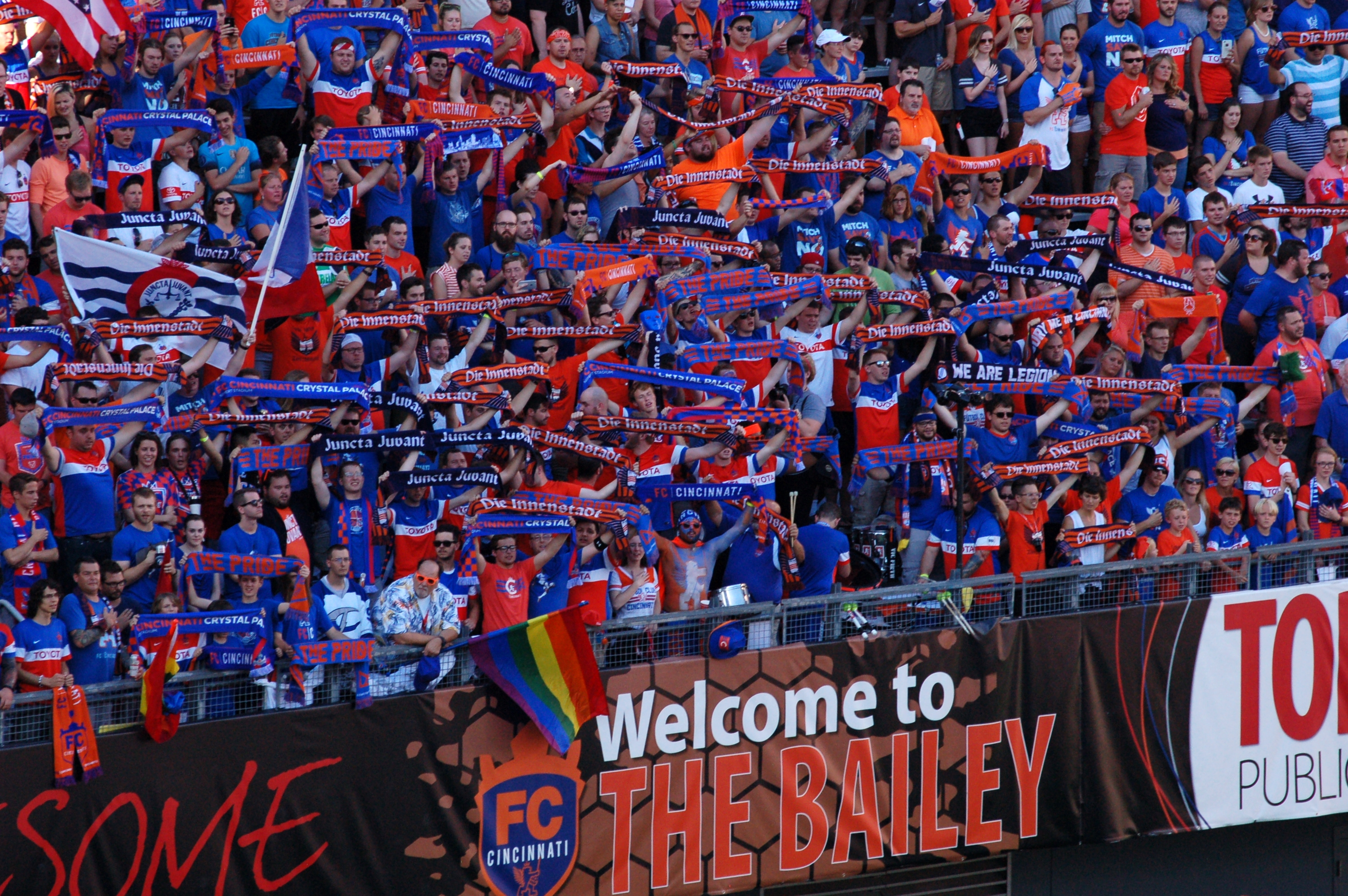 Supporters of FC Cincinnati in The Bailey, the club's main fan section, holding up their scarves, which bear slogans such as "Juncta Juvant", "Die Innenstadt", and "The Pride". Taken during an exhibition match between FC Cincinnati and Crystal Palace F.C. at Nippert Stadium in Cincinnati on July 16, 2016.